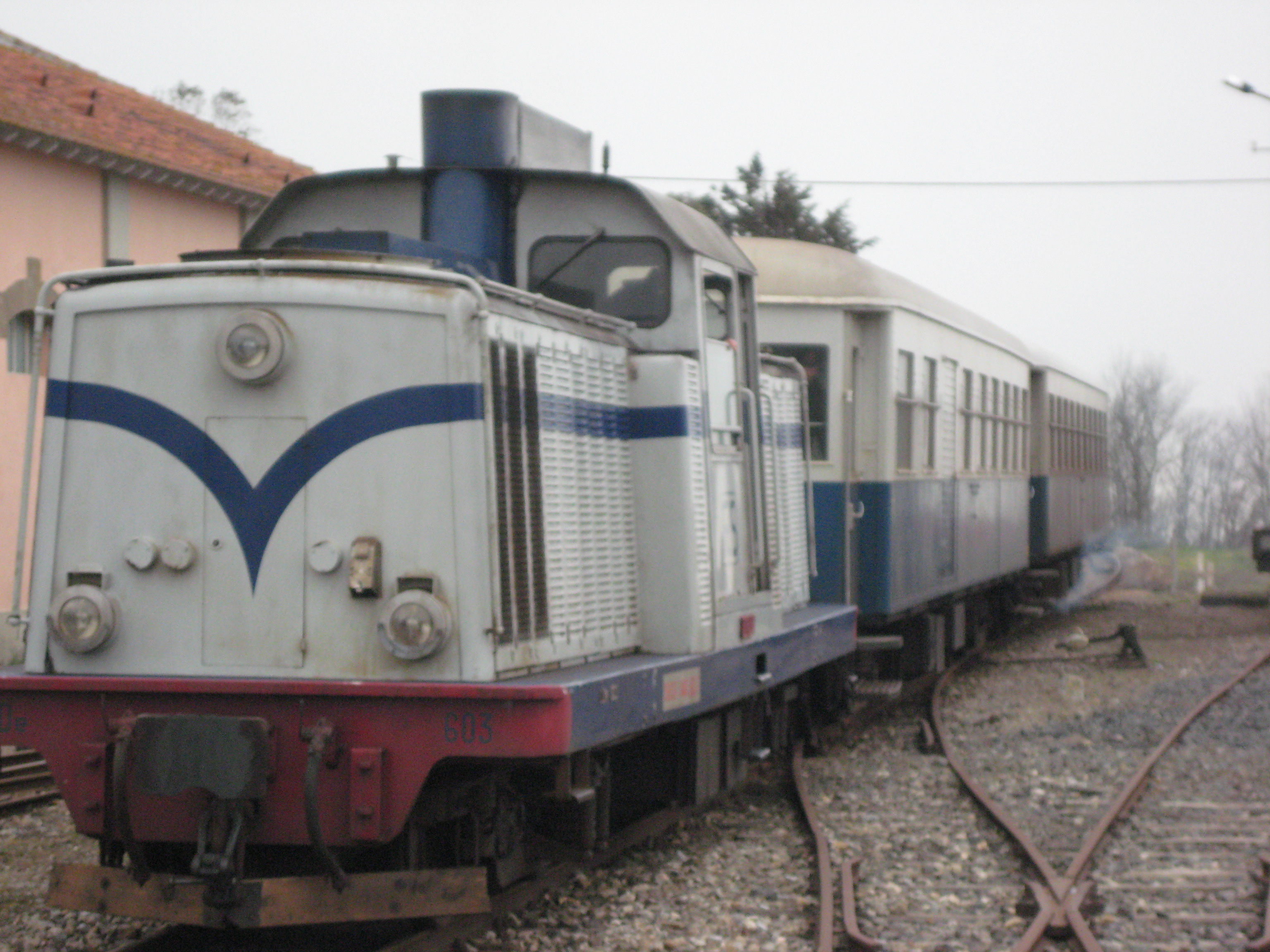 Diesel-electric locomotive (LDe) number 603 of Ferrovie della Sardegna